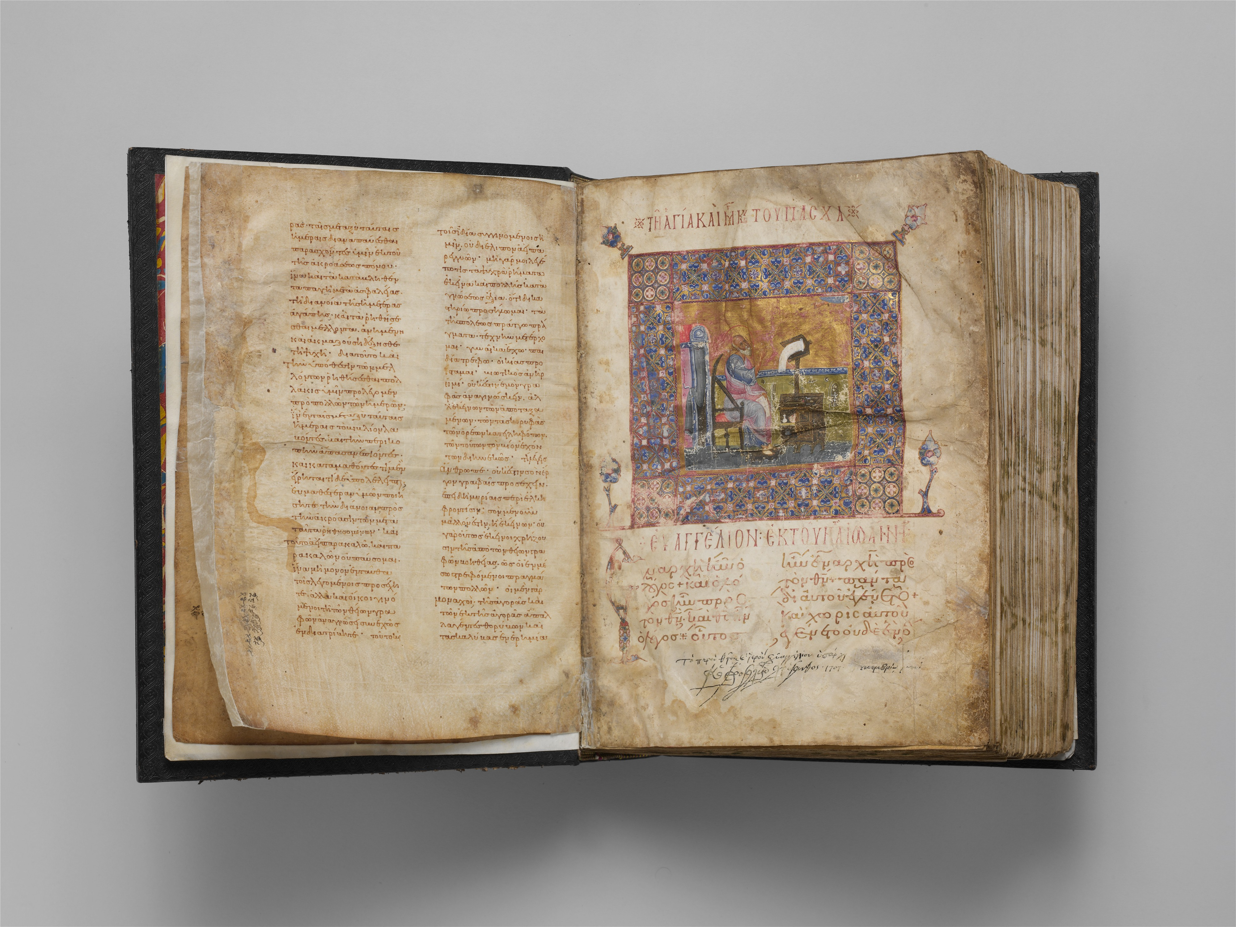 Byzantine; Gospel lectionary; Manuscript; Manuscripts and Illuminations